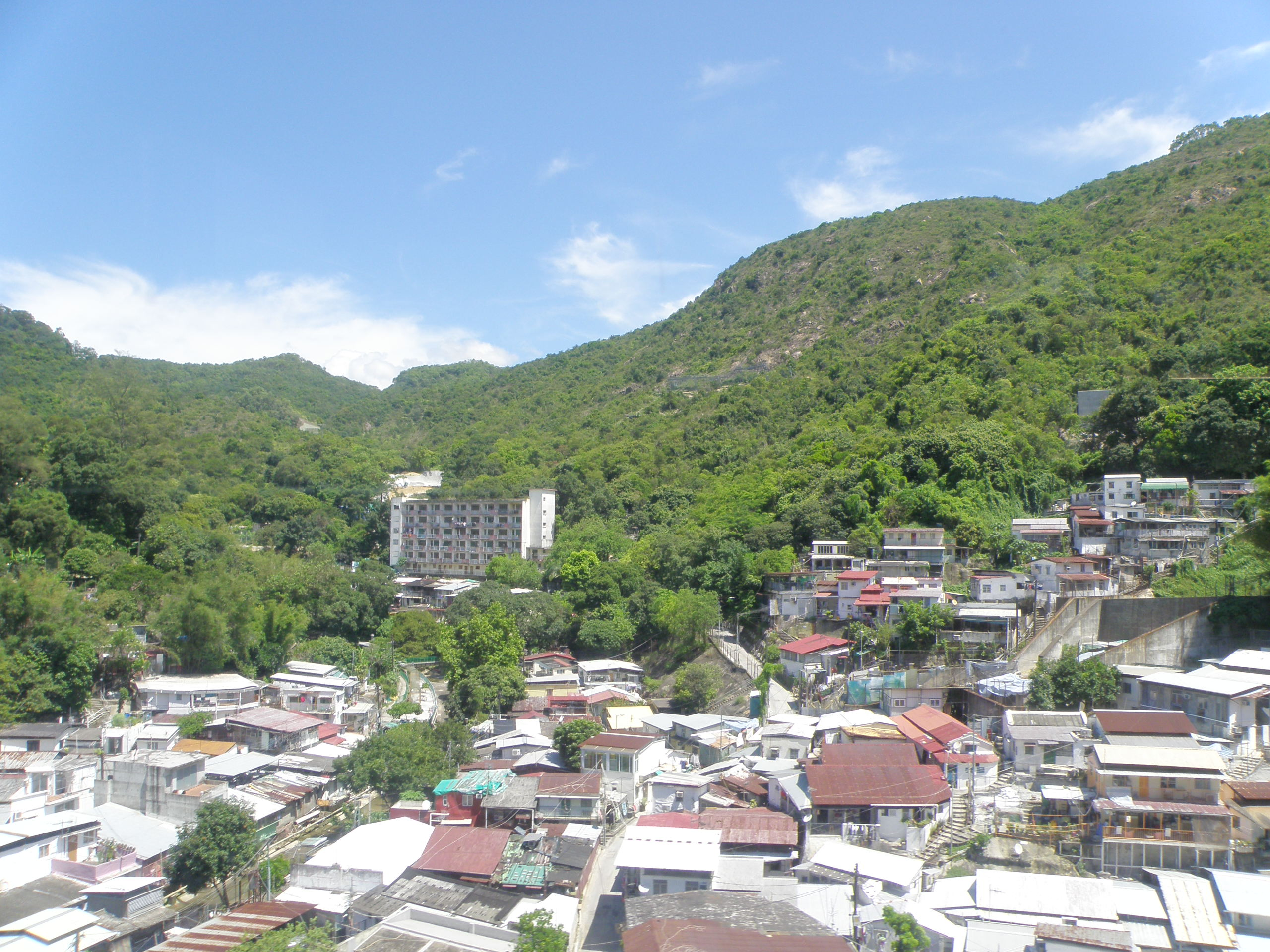 Sham Tseng San Tsuen in Sham Tseng, Hong Kong.